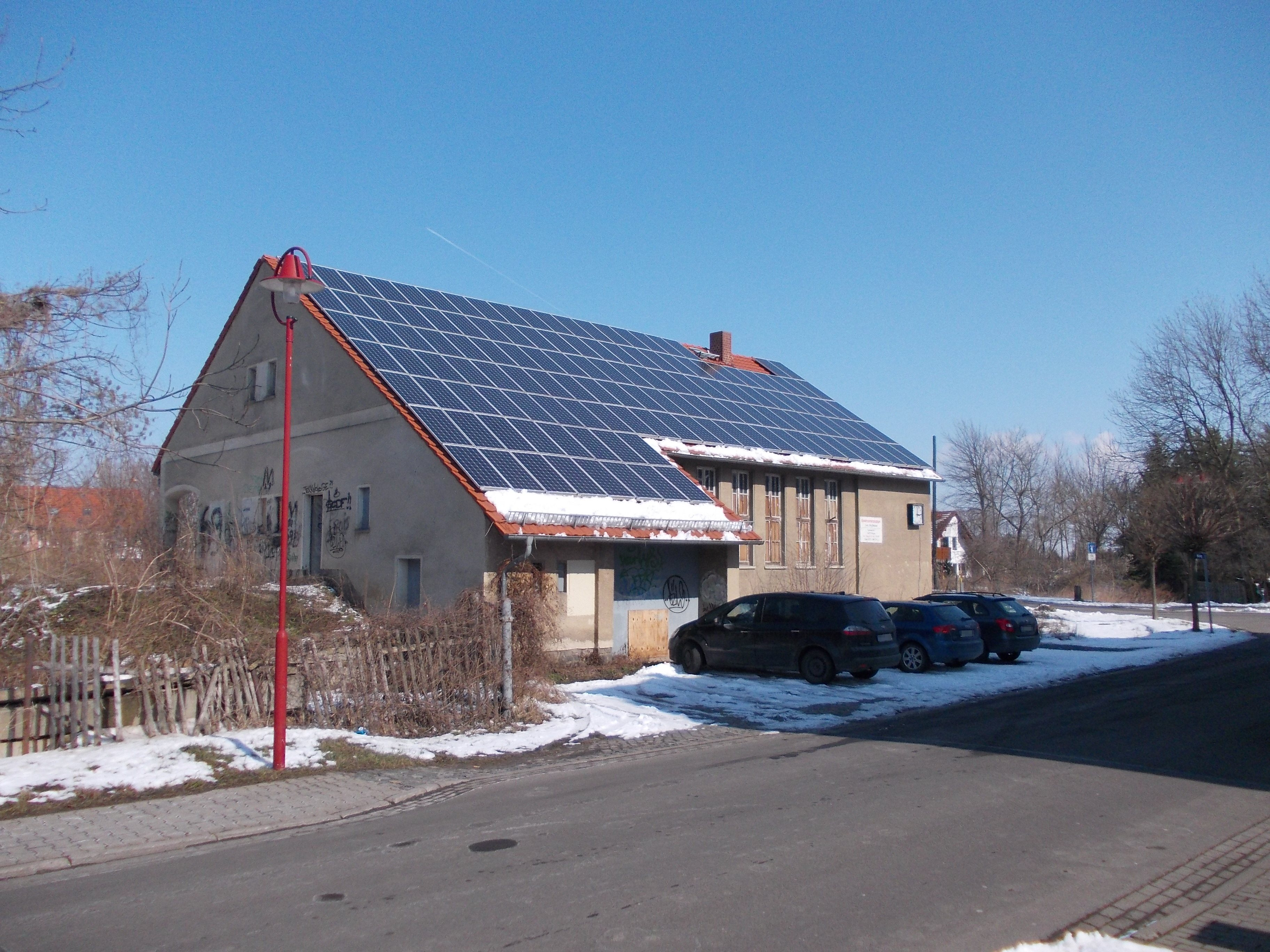 Former Pegau-Ost train station (Leipzig district, Saxony)